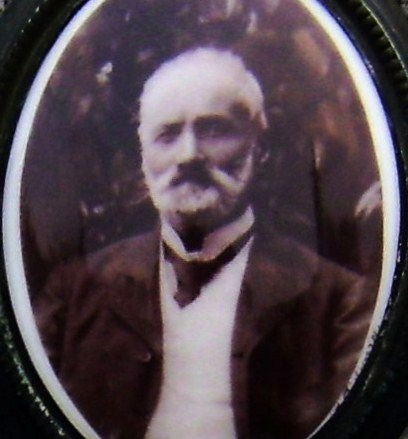 Member of the de Sessa noble family